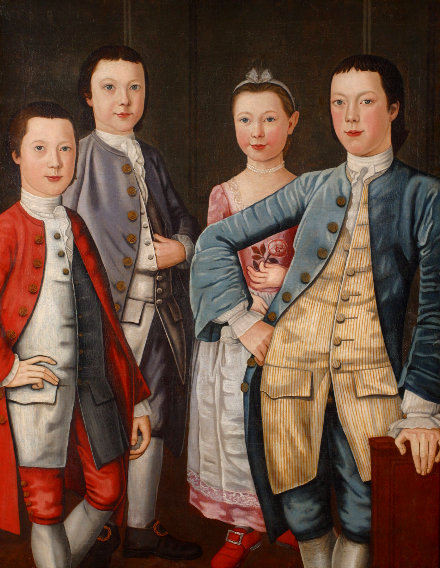 Durand was regarded as one of New York's finest painters. He lived in the City for only a brief time –1766 to 1768, during which time he painted members of the Beekman, Bancker, Rapalje and other prominent New York City families of the era. Durand painted Garret Rapalje, the father of the Rapalje children, in a separate portrait. (That painting is now severely abraded, likely due to a prior restoration.) Garret Rapalje (b. 1730) was the son of George Janse Rapalje and Diana (Middagh) Rapalje. He married Helena de Nyse (b. 1732), and made his living as an importer in New York City. During the 1760s he was an assistant alderman of the City. During the Revolutionary War, Rapalje was a Loyalist, and later left New York City for New Orleans. He and his wife had four children (from left to right): Garret II (b. 1757); George (b. 1759); Anne (b. 1762); and Jacques (b. 1752). Rapalje was descended from Joris Jansen Rapalje, one of the earliest settlers of New Amsterdam.